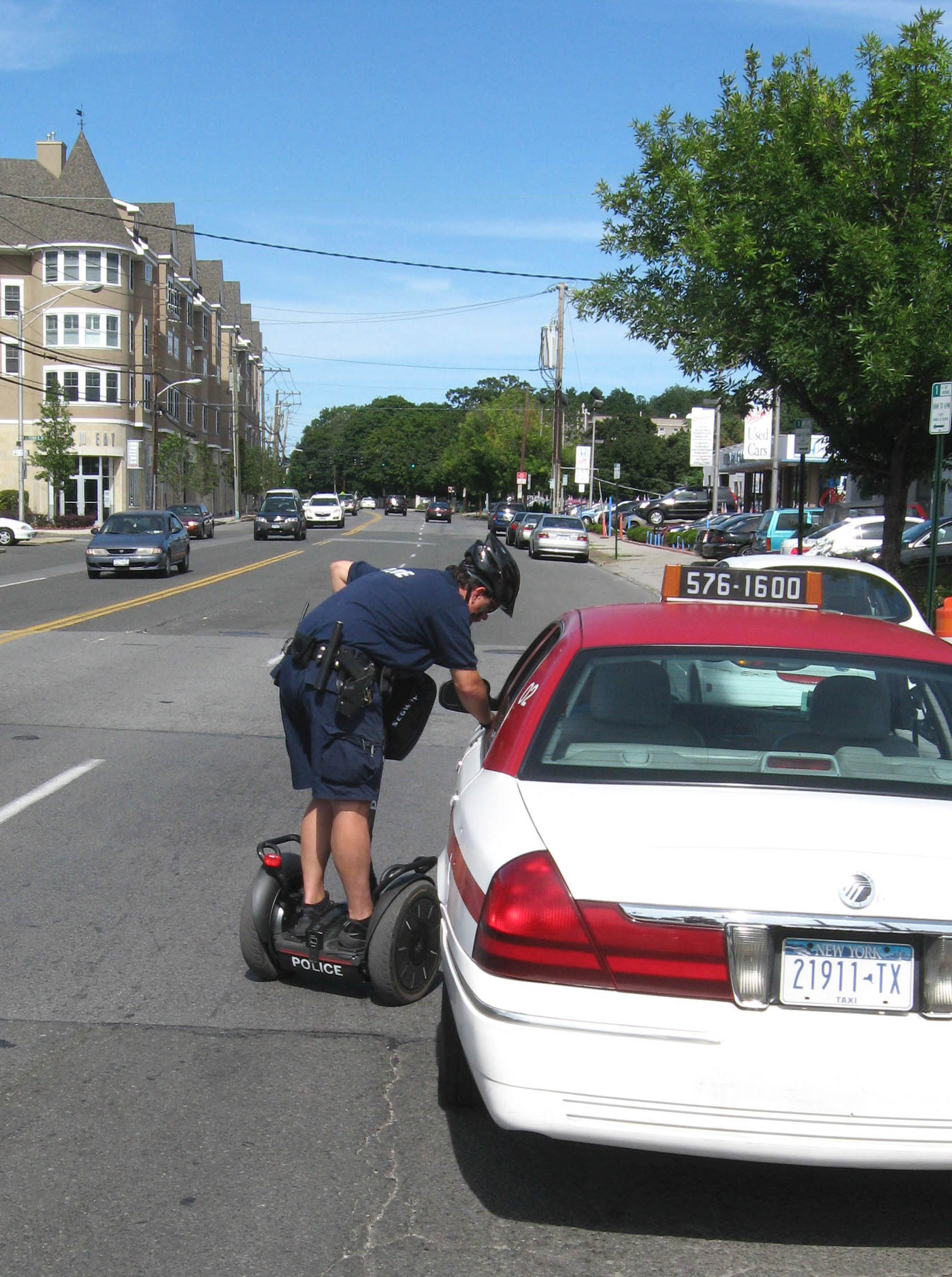 Looking northeast on Boston Post Road as a New Rochelle, New York policeman talks to a taxi driver without dismounting from his Segway on a sunny midday.